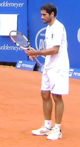 Ramón Delgado, tennis player from Paraguay, at São Paulo-2 Challenger, 2010